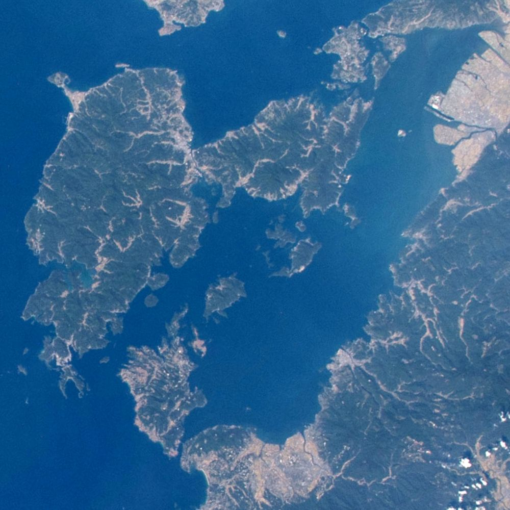 Amakusa Islands and Yatsushiro Sea, Kumamoto prefecture, Japan.